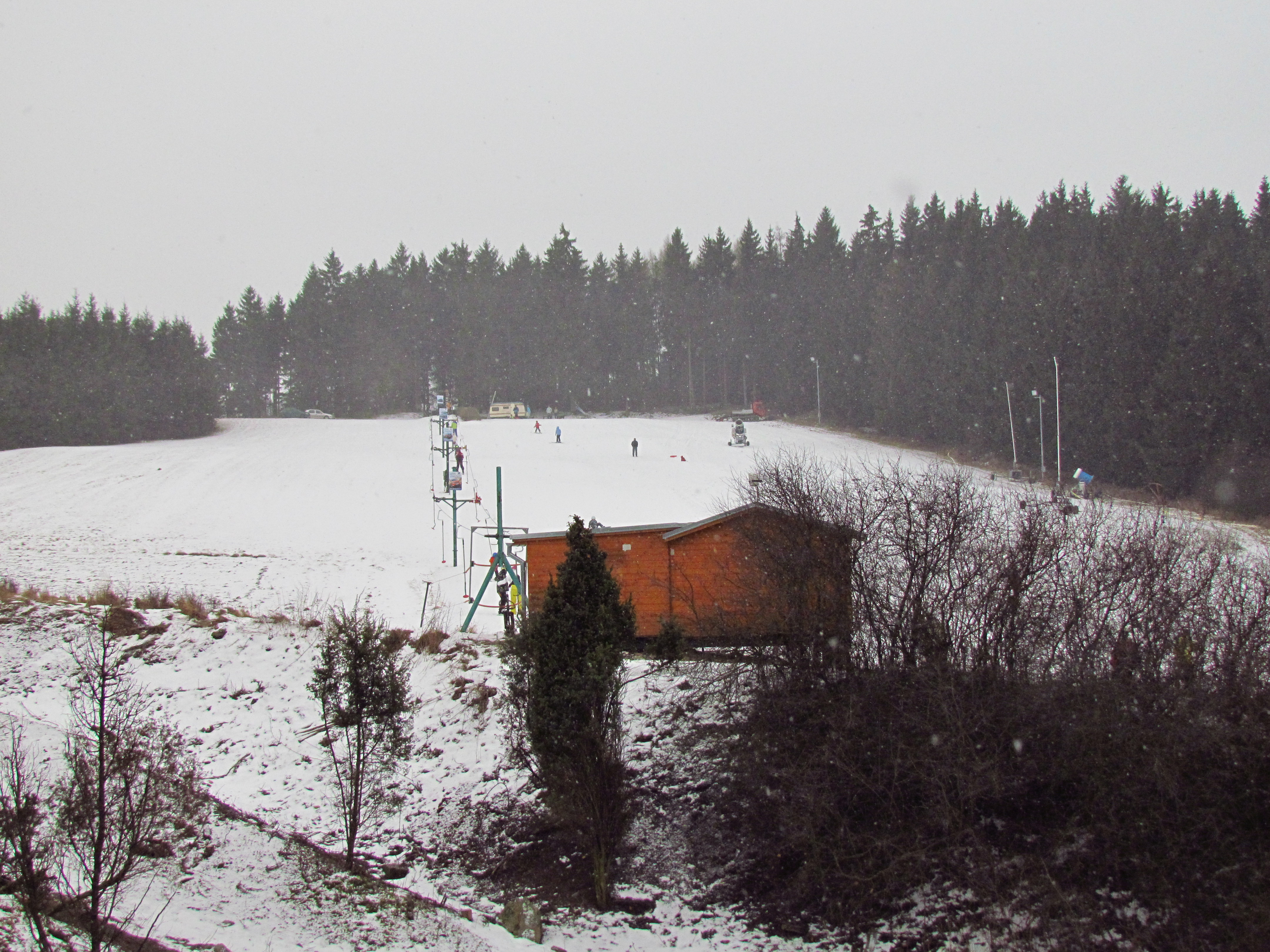 Ski slope Jalovec, Číchov, Třebíč District.